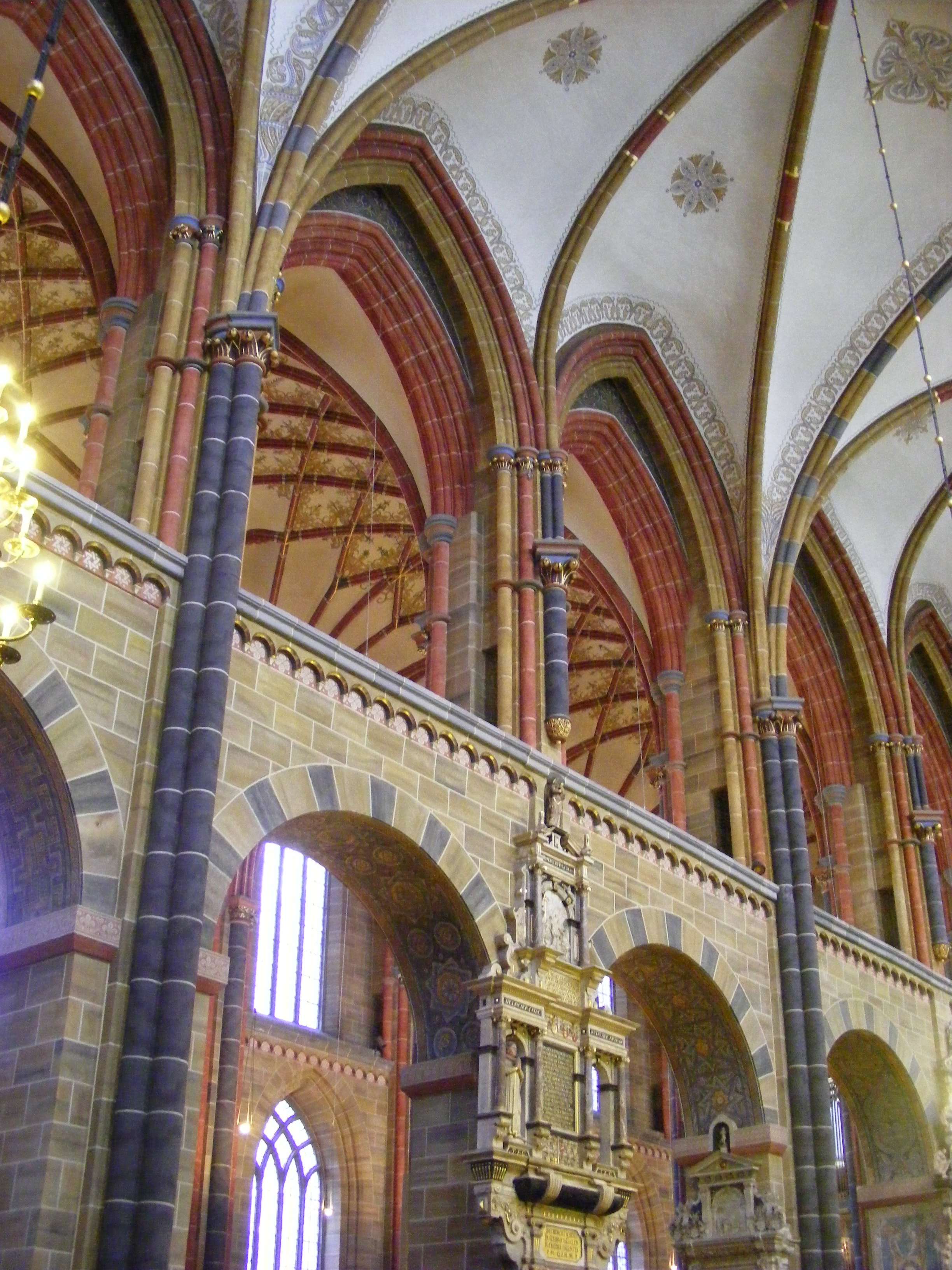 Breen Cathedral, view from the late romance central nave into the late gothic northern aisle